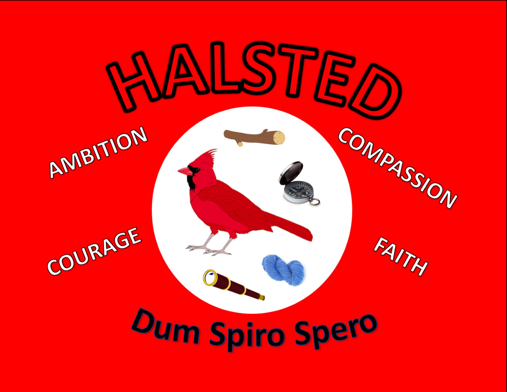 house